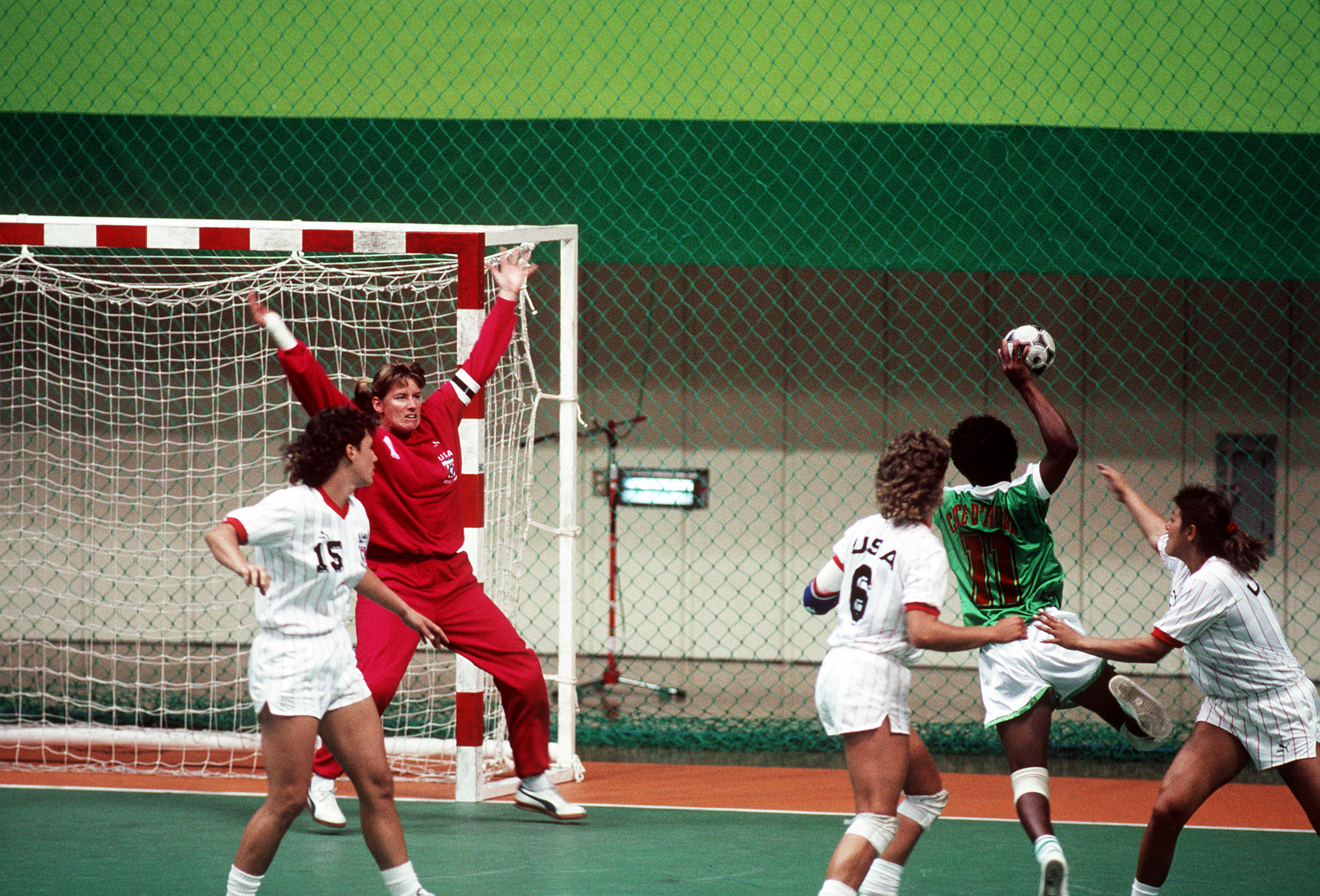 Kathy Callaghan defends the goal against an Ivory Coast opponent in a team handball match at the XXIVth Olympiad. Callaghan played in the second half of the U.S. team's only victory, but little more than that due to a lingering illness.